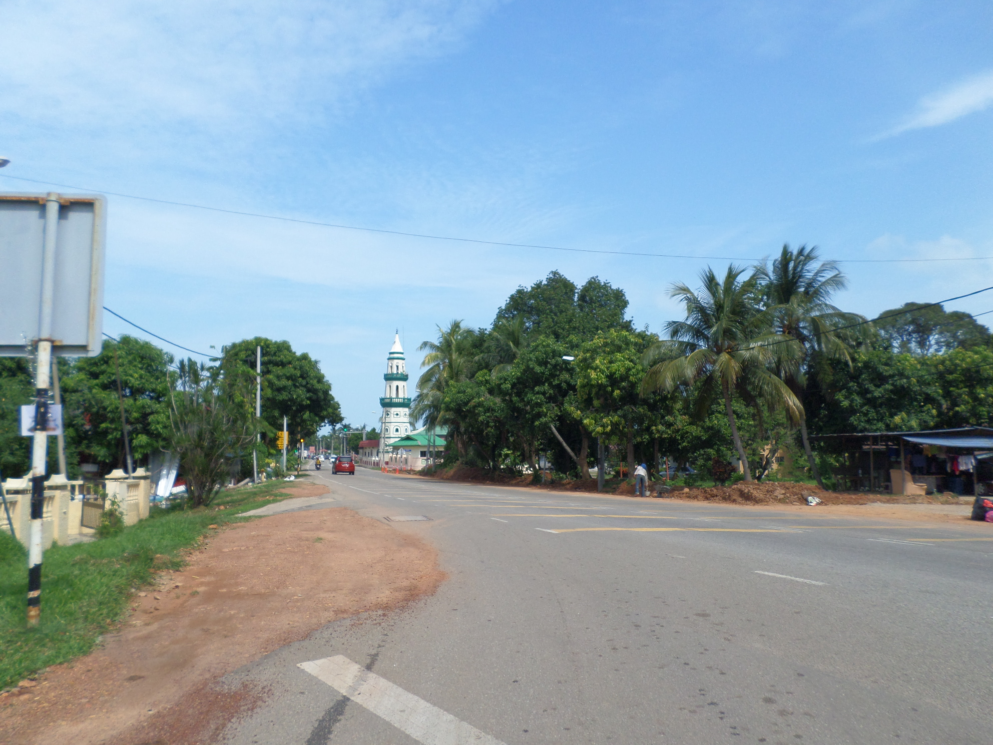 Telok Mas, Central Malacca, Malacca, MalaysiaBahasa Melayu: Telok Mas, Melaka Tengah, Melaka, Malaysia